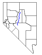 Location of Reese River within Nevada.